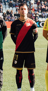 Real Valladolid - Rayo Vallecano, 18th fixture of the 2018-19 La Liga, January 5, 2019.